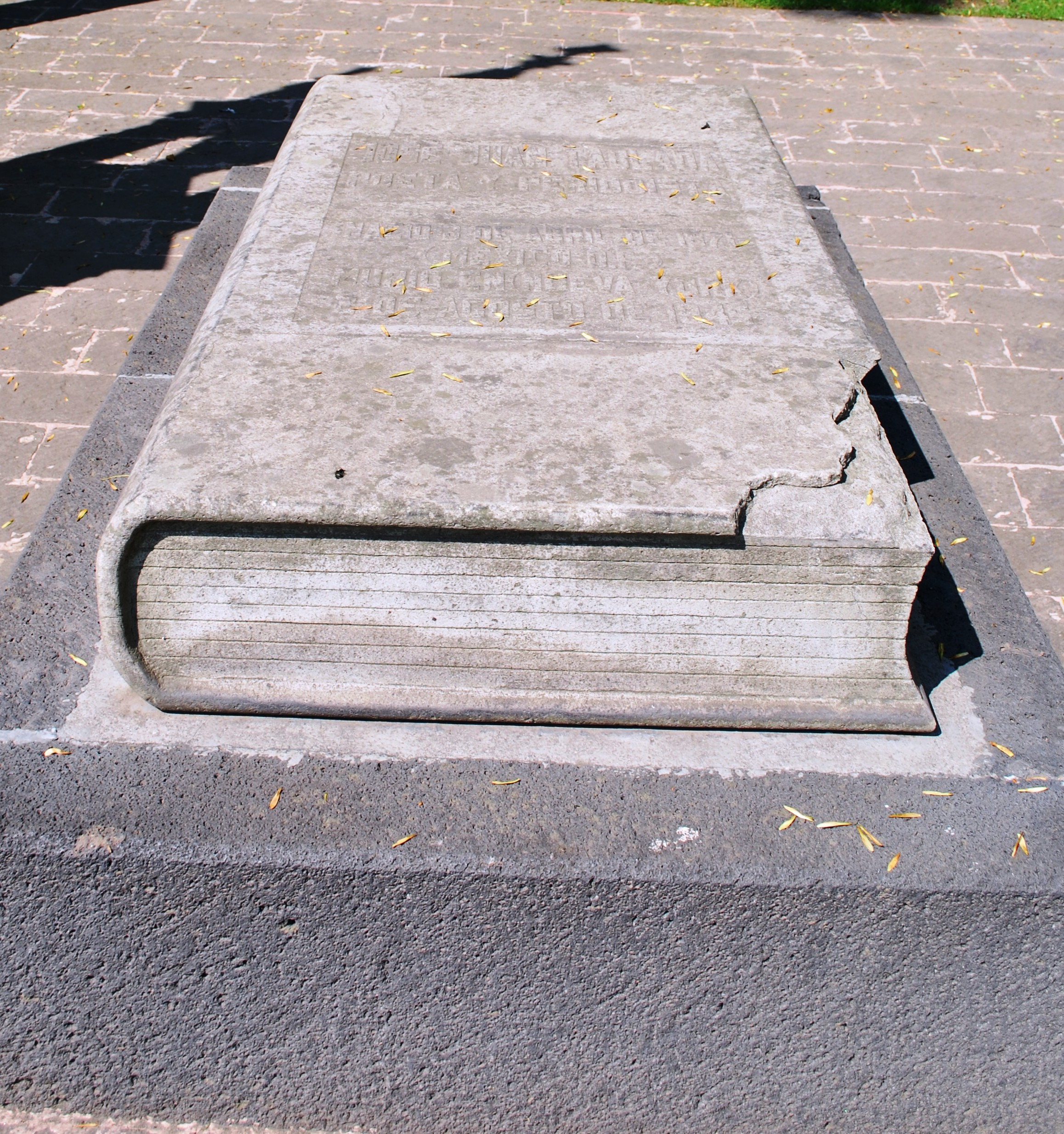 Tomb of writer Jose Juan Tablada in the Panteon Civil de Dolores cemetery in Mexico City